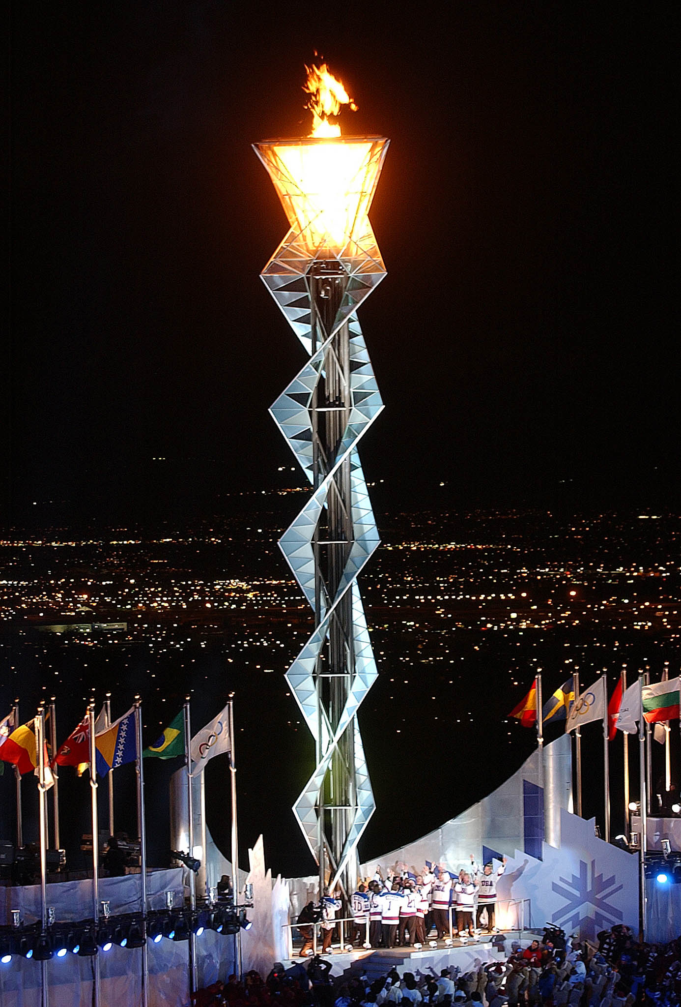 Olympic flame during 2002 Winter Games in Salt Lake City, Utah, United States.From the Navy website: Salt Lake City, UT (Feb. 8, 2002) –– Members of the 1980 Gold Medal U.S. Olympic hockey team stand below the Olympic flame at Rice-Eccles Olympic Stadium during the opening ceremonies of the 2002 Winter Olympics in Salt Lake City. The team had the honor of lighting the cauldron to invoke the official start of the competition. U.S. Navy photo by Journalist 1st Class Preston Keres.